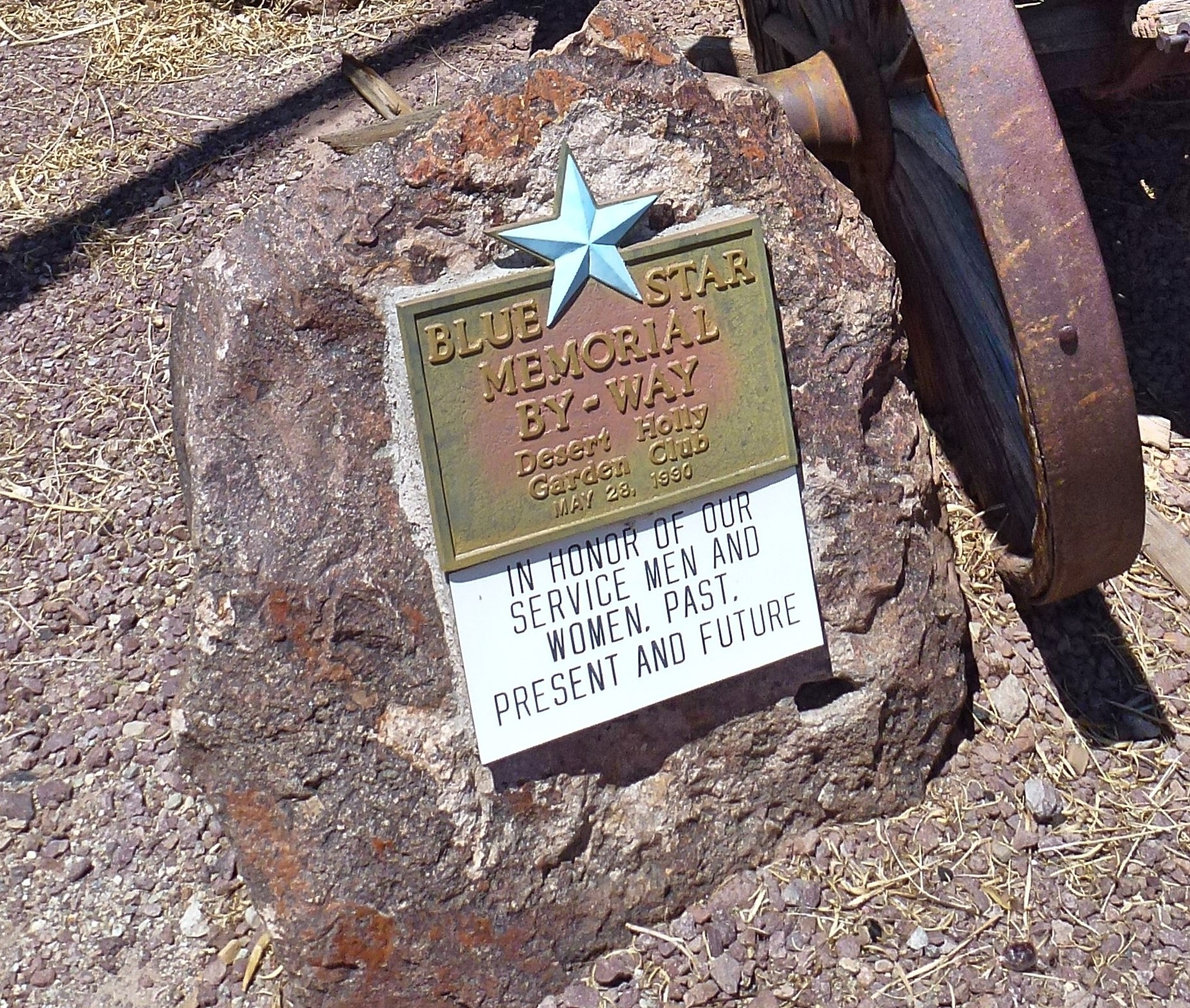 Blue Star memorial at Calico Ghost Town in the Mojave Desert, near Barstow in San Bernardino County, Southern California.